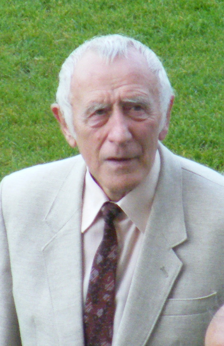 János Szőcs Hungarian association football player and association football coach.